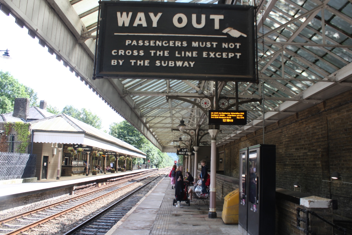 Hebden Bridge in West Yorkshire is well known for its collection of original signs. This is the view near the subway on platform 1.